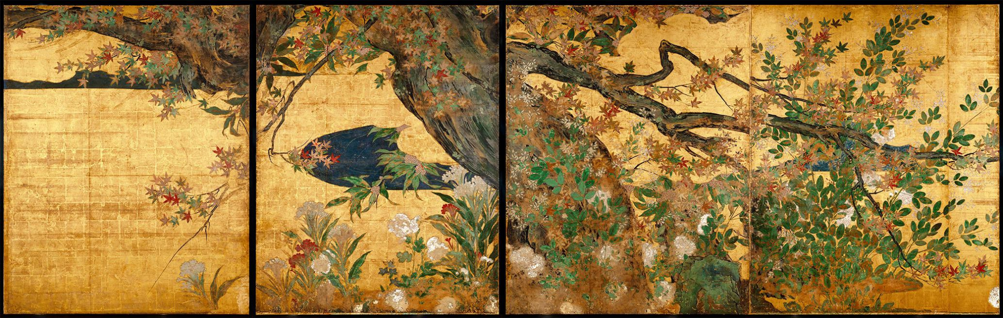 Maple Tree by Japanese painter Hasegawa Tōhaku in the 16th and 17th centuries. Painting dated 1592. Originally a painted for the four panels of fusuma (sliding wall panels) in Shōun-ji temple, now kept at Chishaku-in, Kyoto. Gold and color on paper. National Treasure of Japan.